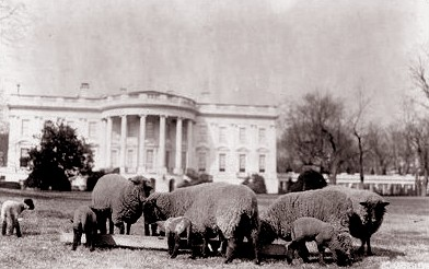 Sheep on the South Lawn of the White House, c. 1914.